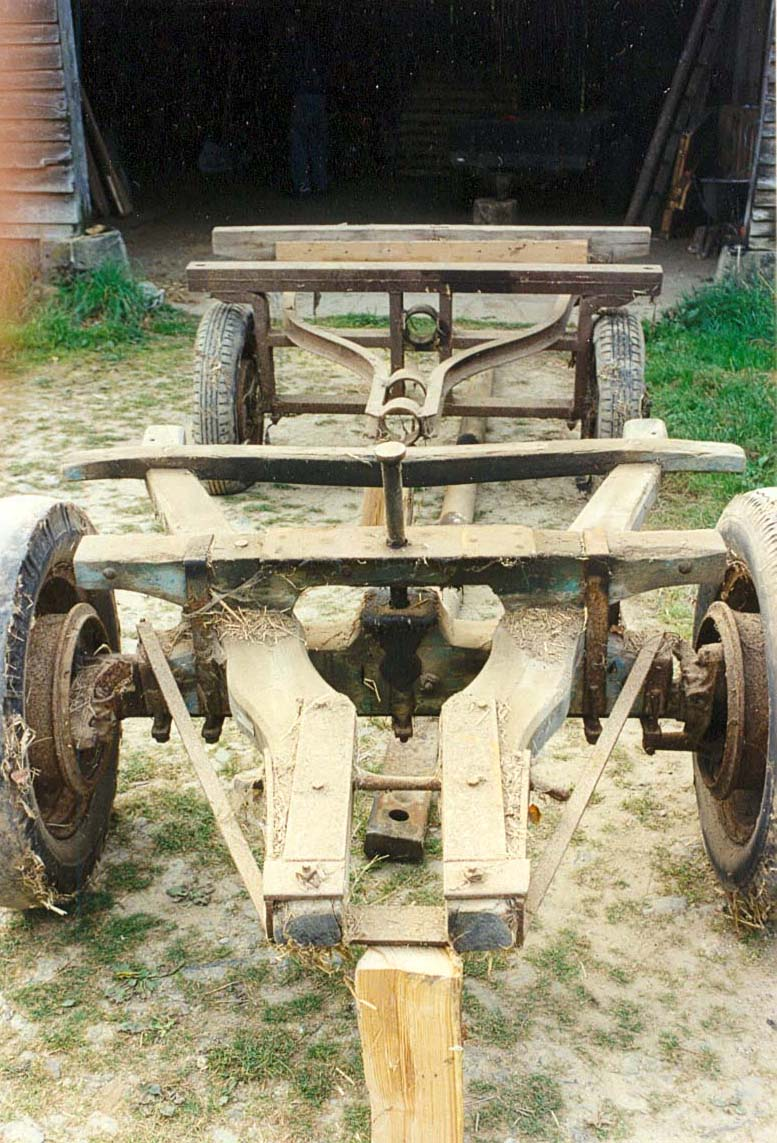 detached parts of a wagon Walon: pîces d' on tchår : li dvant, li drî, eyet li londje, al tere pa padzo (portrait saetchî pa L. Mahin).